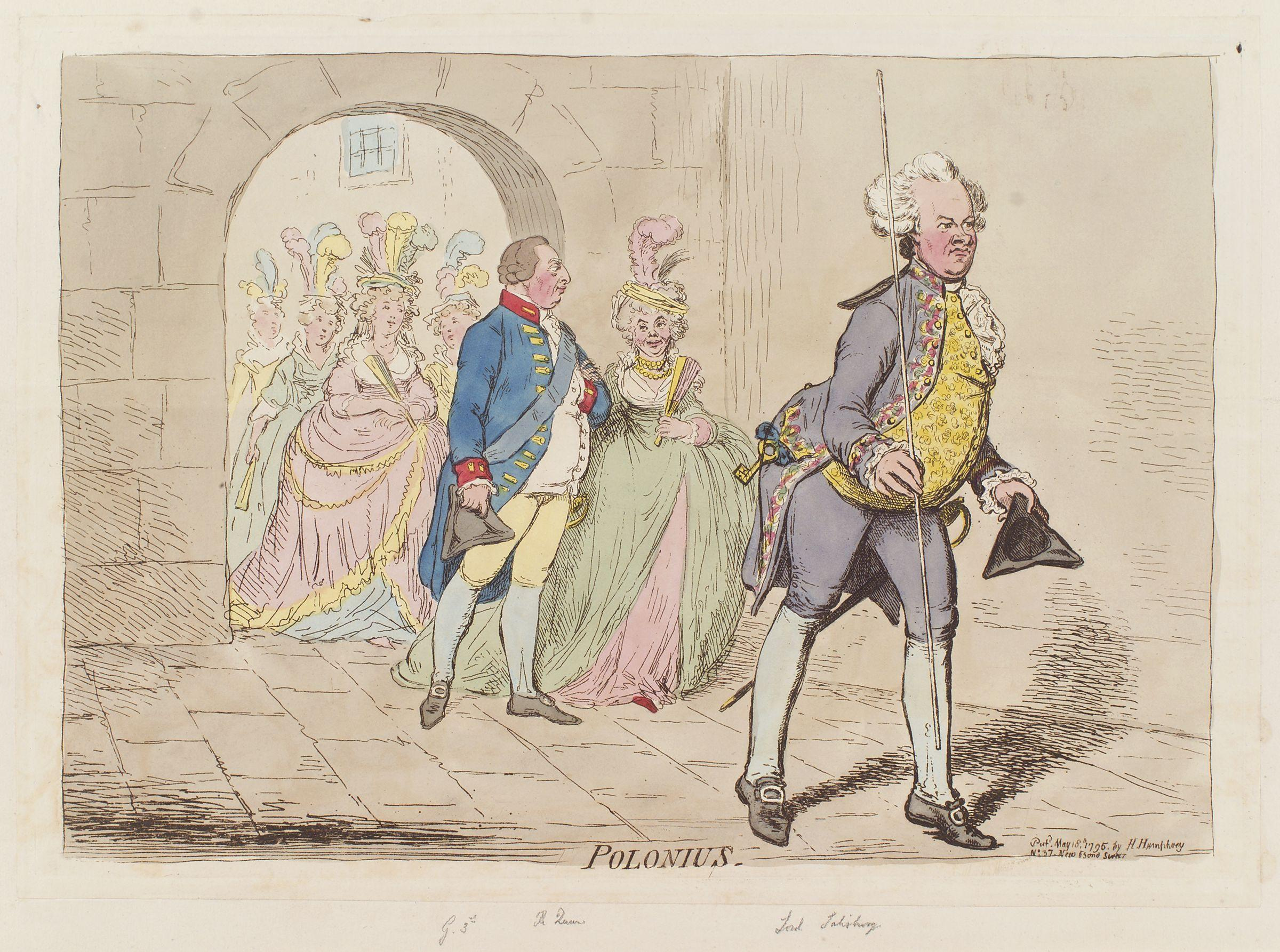 All images in this batch have been confirmed as author died before 1939 according to the official death date listed by the NPG.